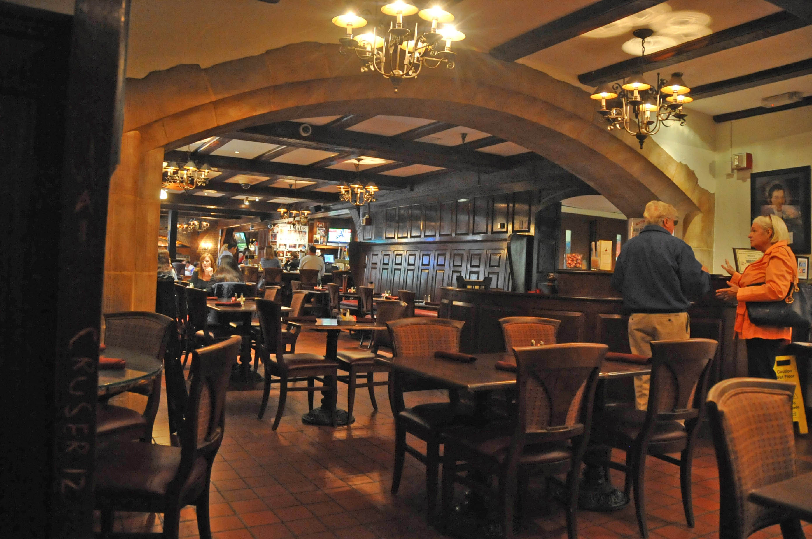 YANKEE DOOD TAP ROOM IN THE NASSAU INN. THE INN ; GOES BACK TO 1756 WHEN IT WAS BUILT BY JUDGE THOMAS LEONARD